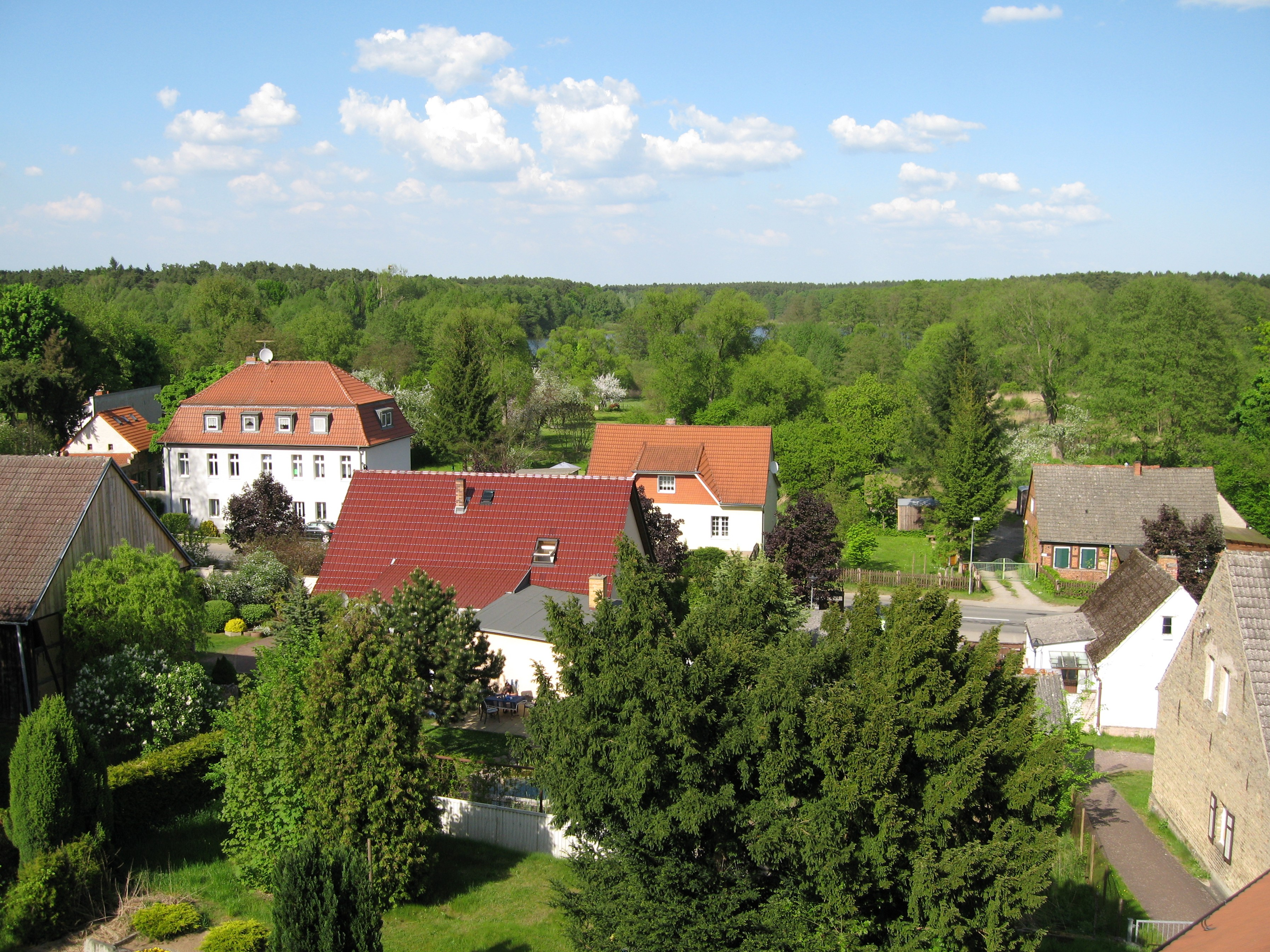 Prenden (Wandlitz) in Brandenburg, Germany